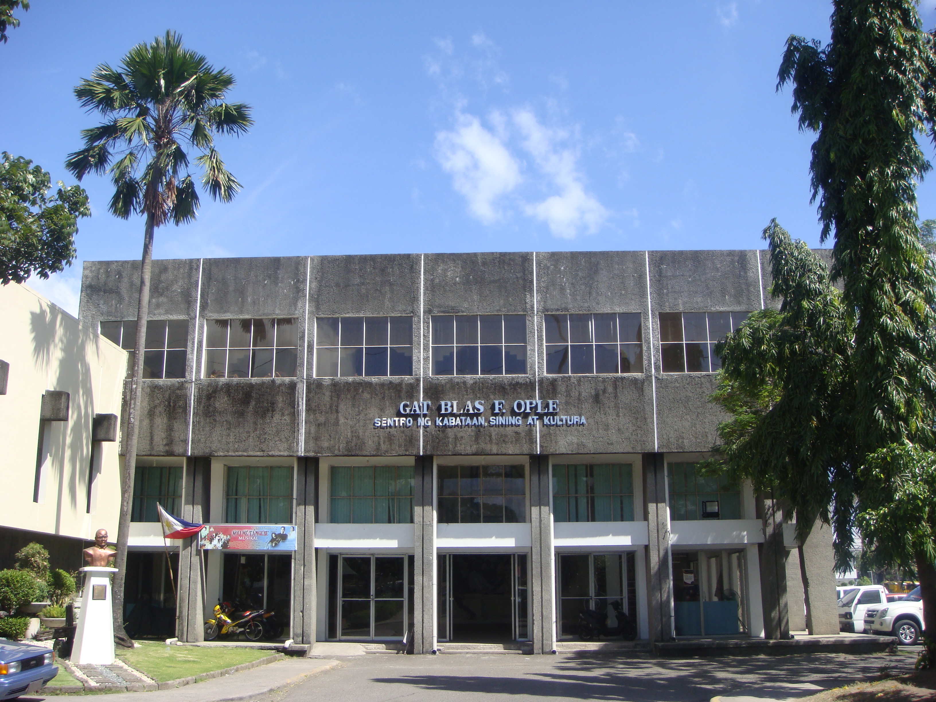 Gat Blas F. Ople Sentro ng Kabataan, Sining at Kultura ng Bulacan, Capitol Cmpd, Malolos City, Bulacan